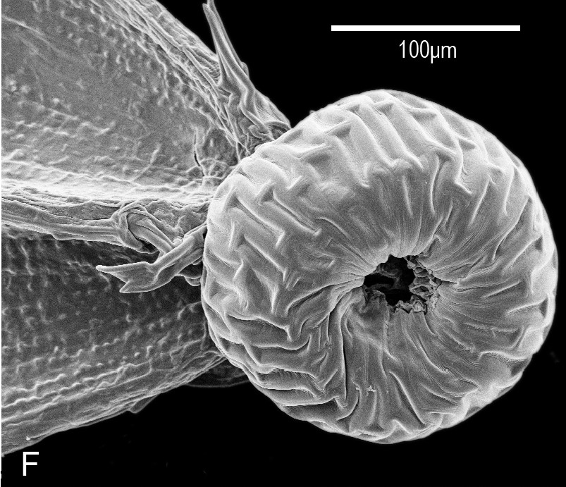 SEM micrograph of carpopodium showing elongate cells. (Brewer & Pau 3349)